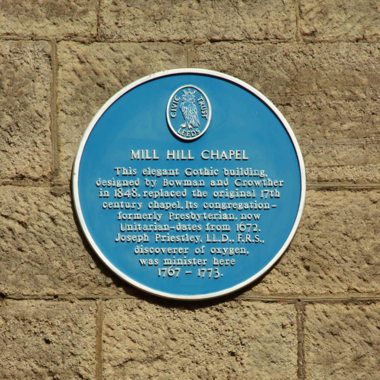 Blue plaque on the west wall of Mill Hill Chapel, Park Row, Leeds, West Yorkshire, commemorating the clergyman and scientist Joseph Priestley